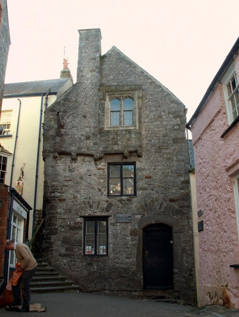 Tudor Merchant's House on Quay Hill